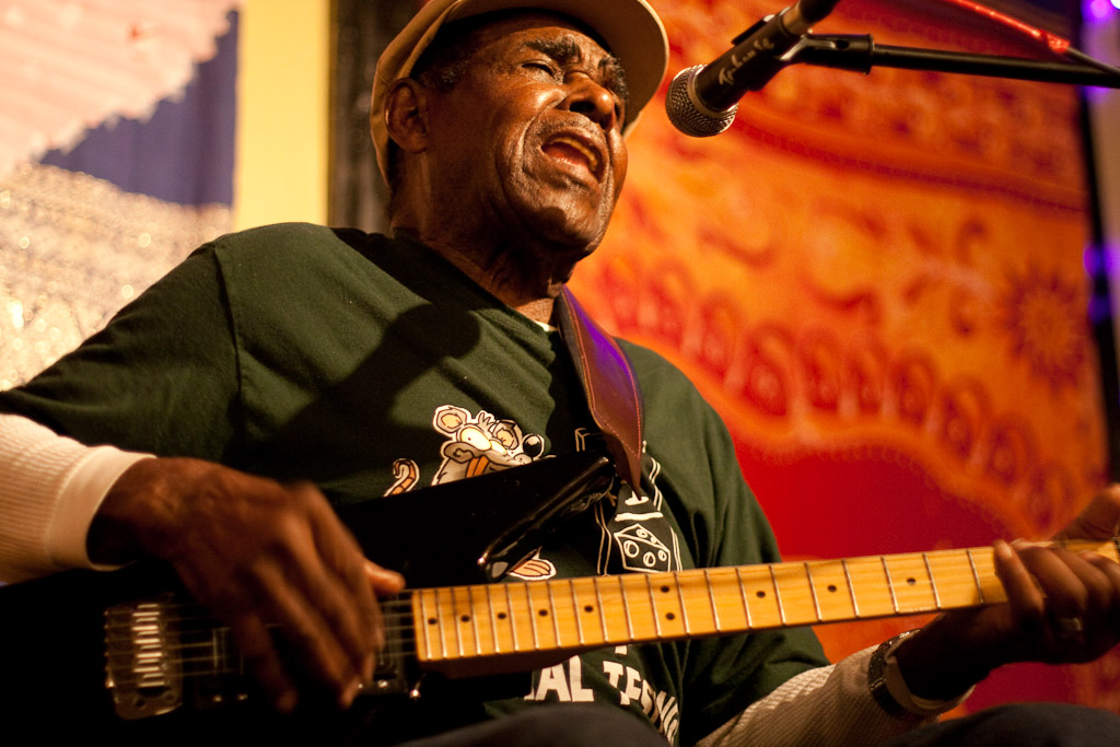 The great Mississippi blues man T-Model Ford during a performance at the Twisted Branch Tea Bazaar in Charlottesville Virginia on March 1 2010.